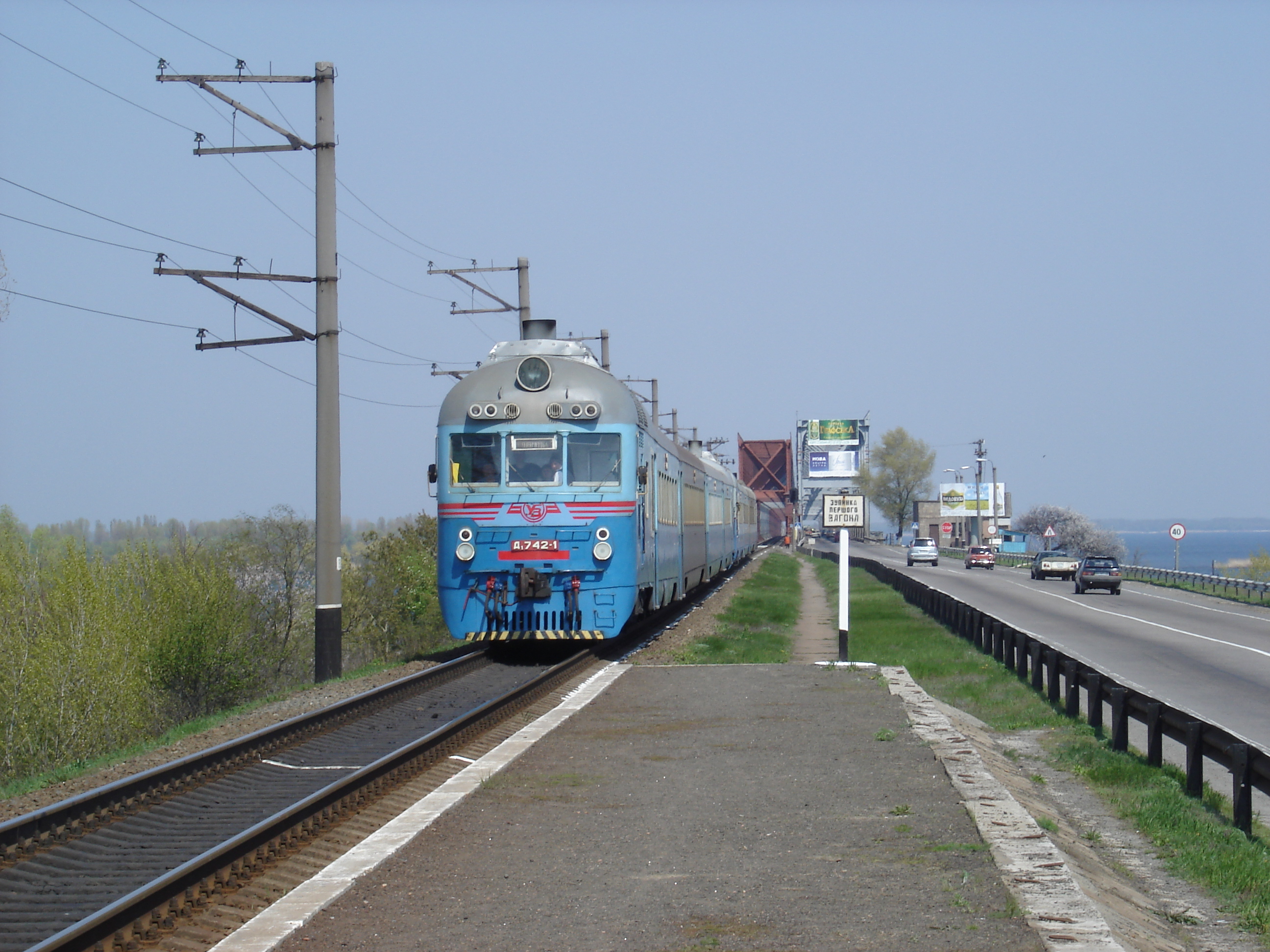 arrival of a train